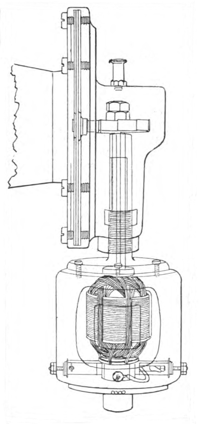 Diagram of the Klaxon brand vehicle horn from 1910. Invented by Miller Reese Hutchison (1876–1944), it was one of the first electric vehicle warning devices.